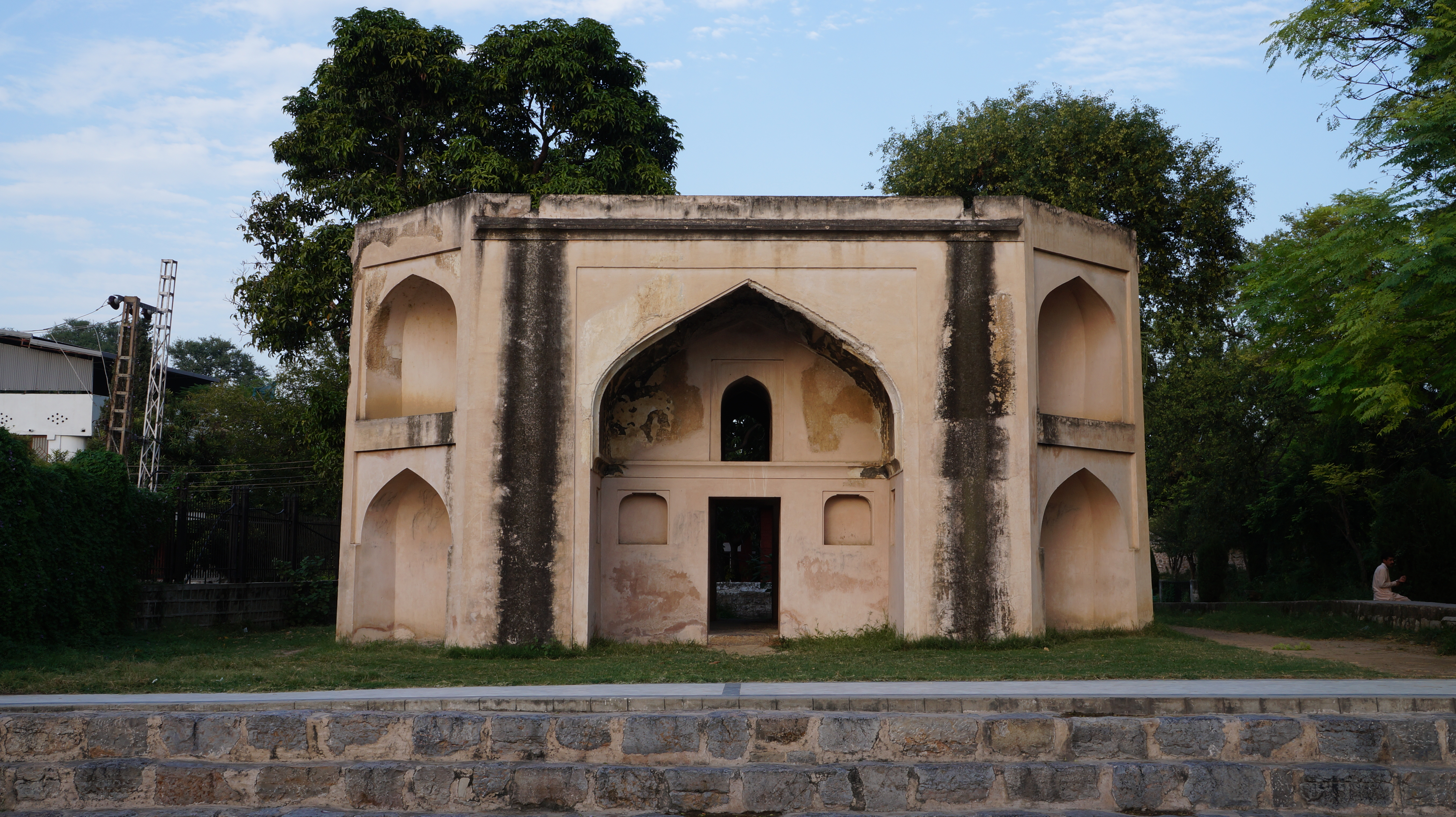 Hakimon ka Maqbara This is a photo of a monument in Pakistan identified as the PB-2